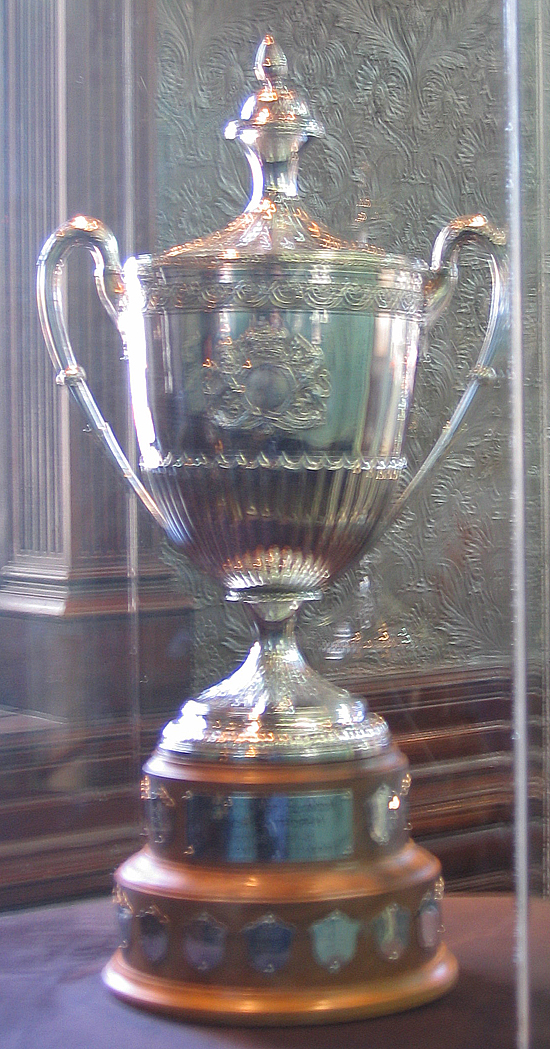 King Clancy Memorial Trophy on display at the Hockey Hall of Fame in Toronto. The trophy is awarded to the NHL player that best demonstrates leadership and humanitarian contribution. Taken by Kmf164 on November 19, 2005.